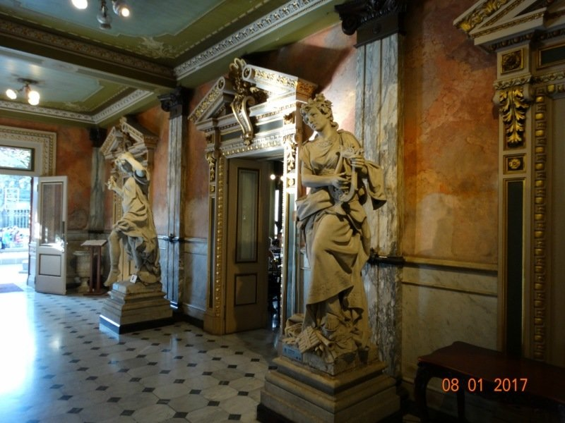 Theater in San Hose (Costa-Rica)